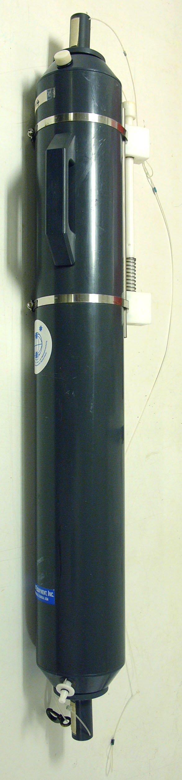 Water bottle (Niskin bottle) used to collect water sample profiles from various depth in hydrographic research (oceans and lakes); often used in combination with a CTD.